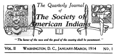 The Quarterly Journal of Society of American Indians masthead. Other information No.